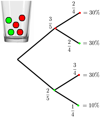 Example for a tree diagram